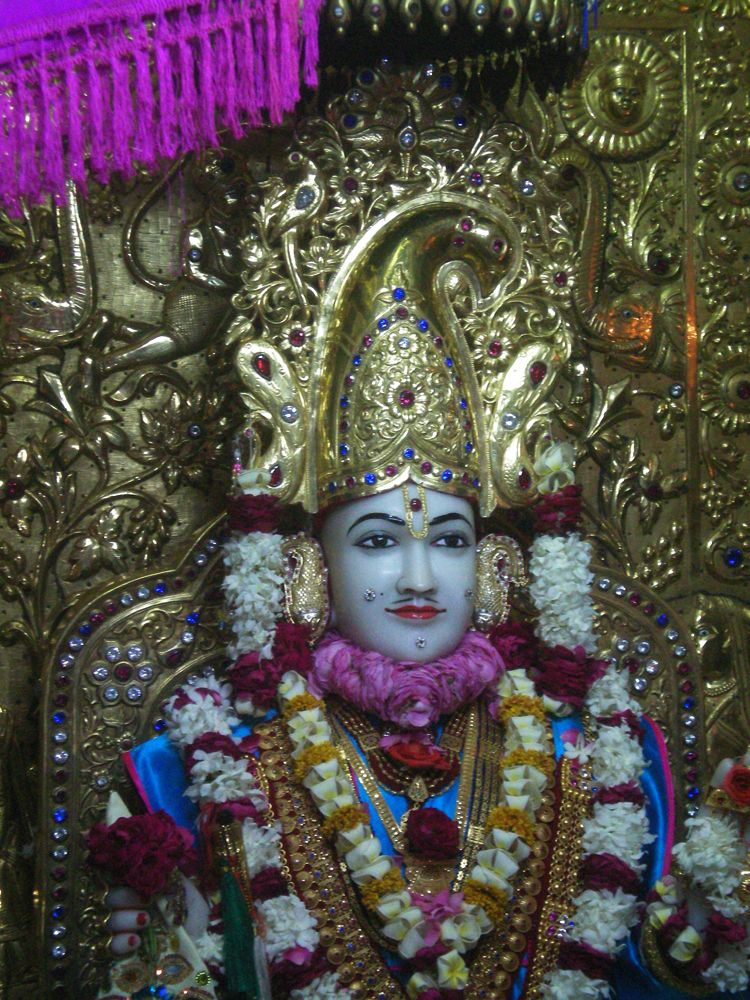 Anjar is a main city near Bhuj and located in the Kutch district of Gujarat state, India. The Anjar city is established before 1000 years ago as there one the oldest Bhareswar Mahadev Sankar Temple. Anjar is really famous for three main temple. Among them one Shree swaminarayan mandir at Sawaser Naka, Bhareswar Mahadev Mandir at devaliya Naka and Jesal-Toral Samadhi, near Ajepal Dada Dharm-Shala. The history of Anjar is really extra ordinari. God Swaminarayan has come in Anjar at Sanvat 1863. He stayed here many days with great saints and teach the real lesson of life to many peapol. The people of Anjar surrender themsenves unto the lotuse feet of God. Chagba is the main lady among the followers. She has changed the life of many dowen trodden’s lives. Today Shree swaminarayan mandir at Sawaser Naka in Anjar is not famous only in Anjar Taluka but all over kutch and Gujrat. Ghansyam Maharaj The icon of God Swaminarayan is second one in Kutch to have Darsan. Gk suryaswami